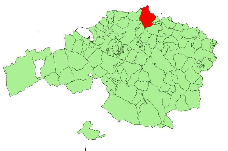 Bermeo municipality in the province of Biscay